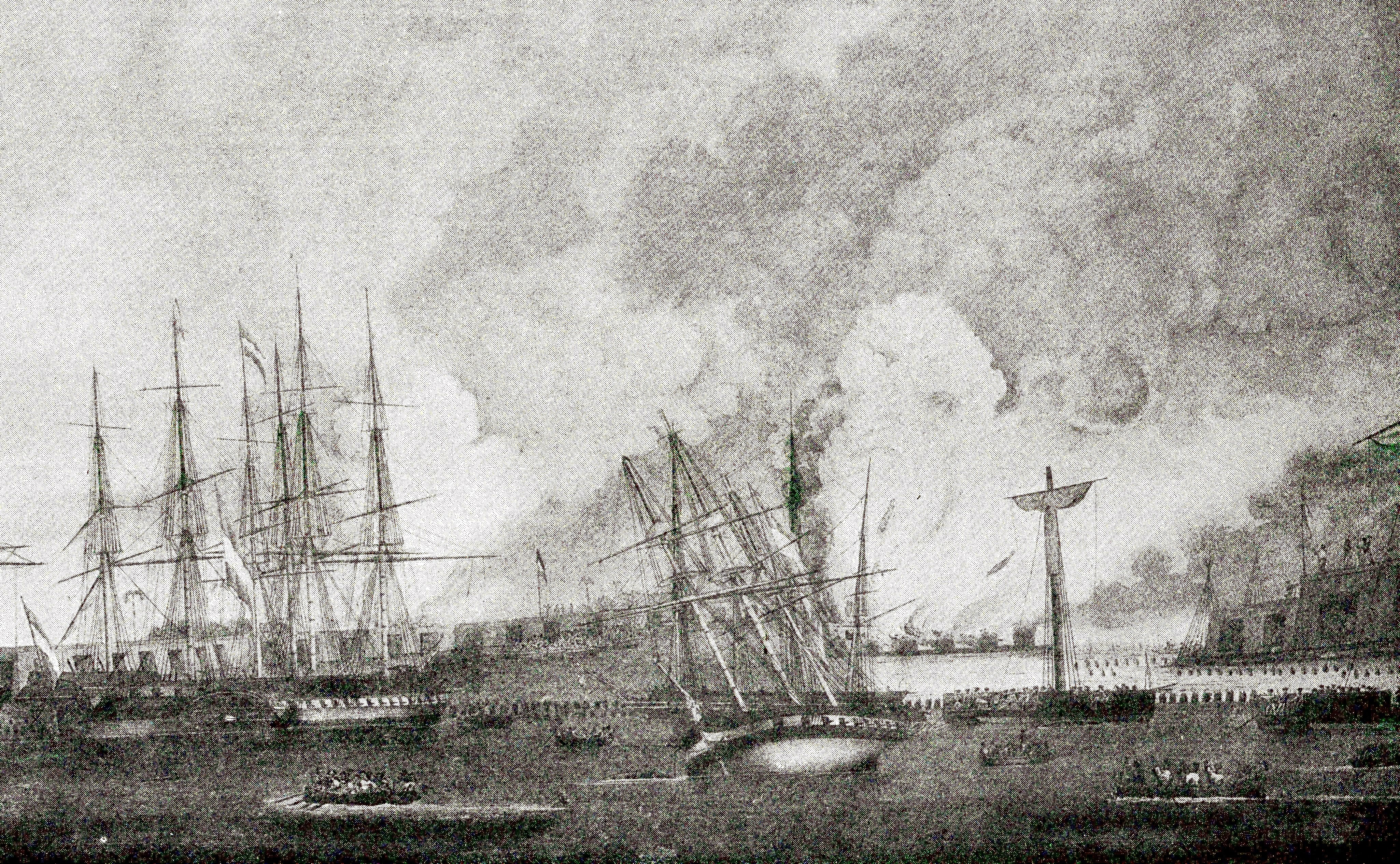 Palembang, juni 1821